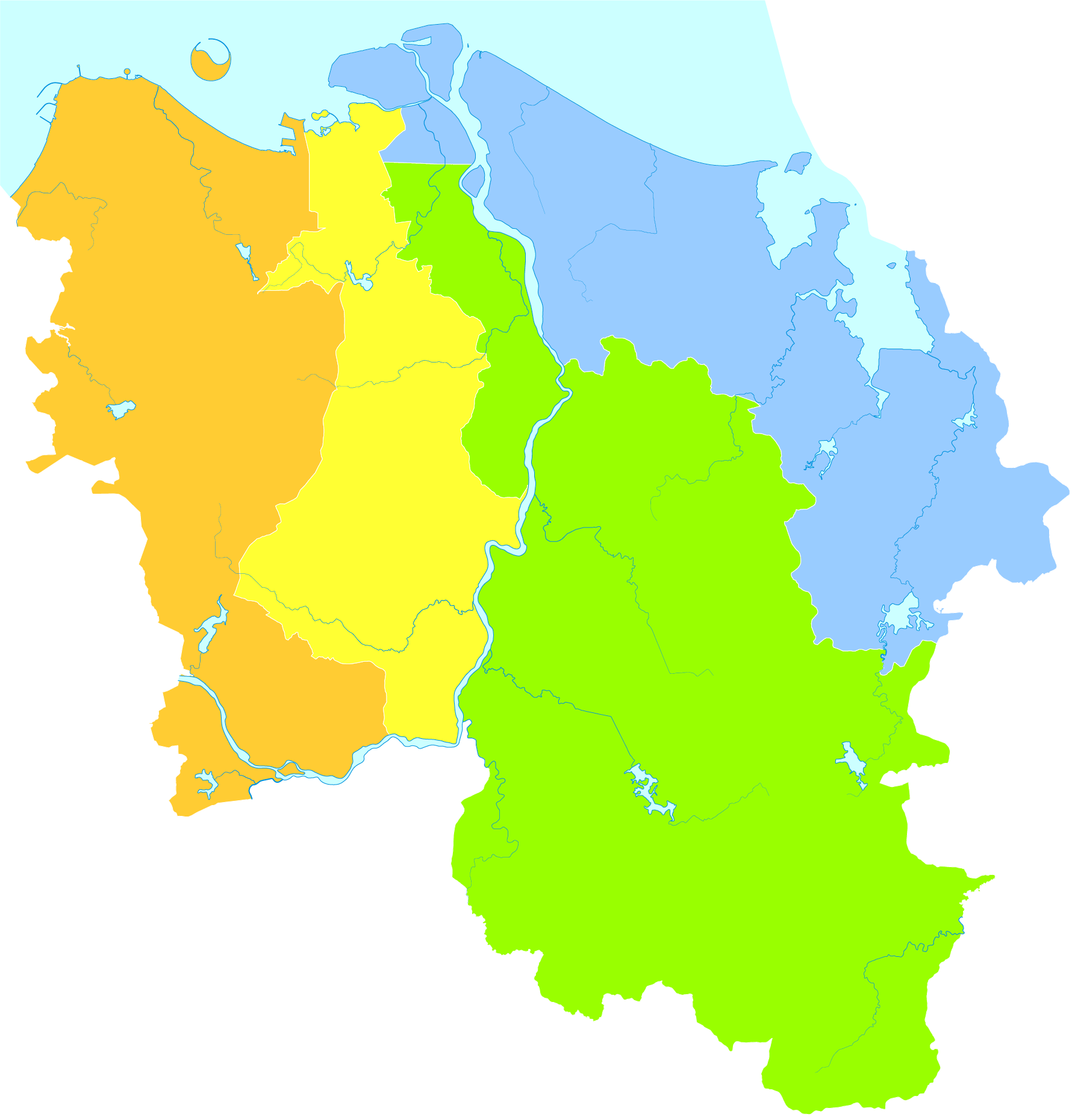 administrative districts of Haikou City, Hainan, China Longhua 龙华区 Xiuying 秀英区 Qiongshan 琼山区 Meilan 美兰区 source